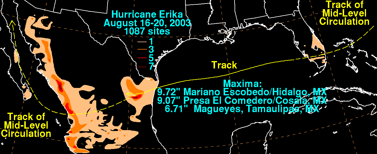 Rainfall produced by Hurricane Erika during August 2003.